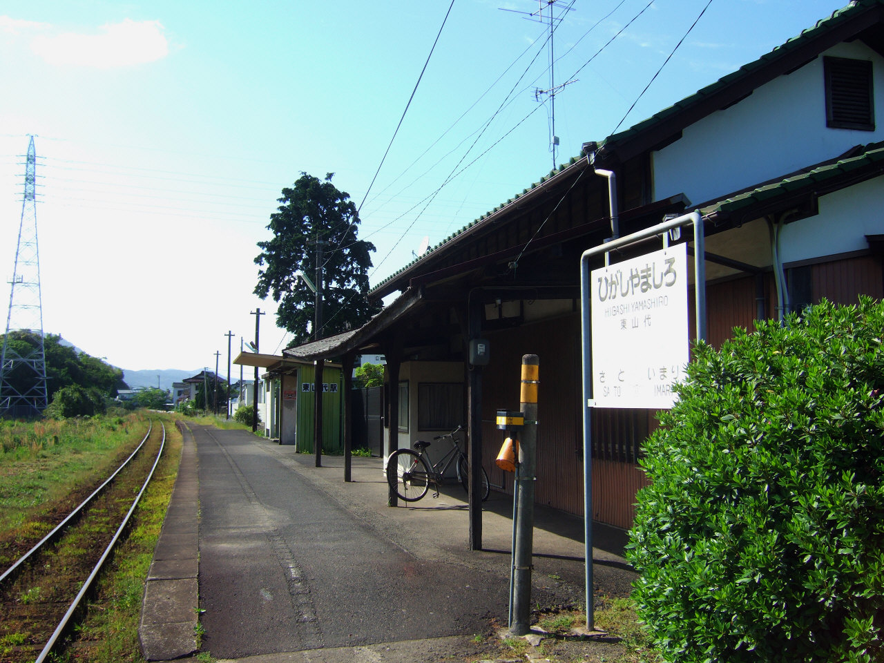 松浦鉄道東山代駅（Matsuura Railway Higashi-Yamashiro Station）